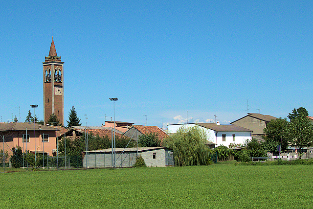 View of Pieranica, province of Cremona, Italy